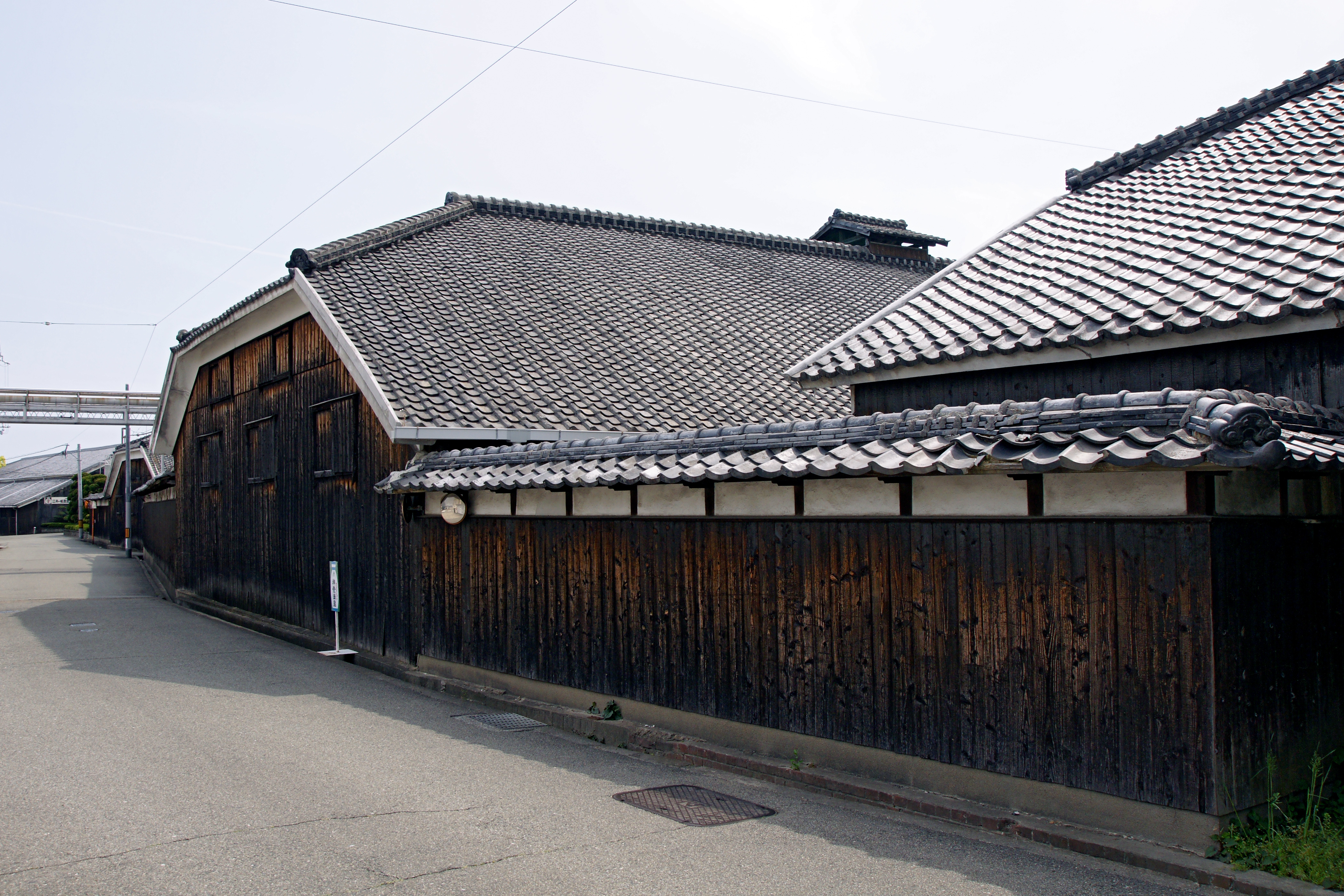 Eigashima Sake Brewing in Akashi, Hyogo prefecture, Japan